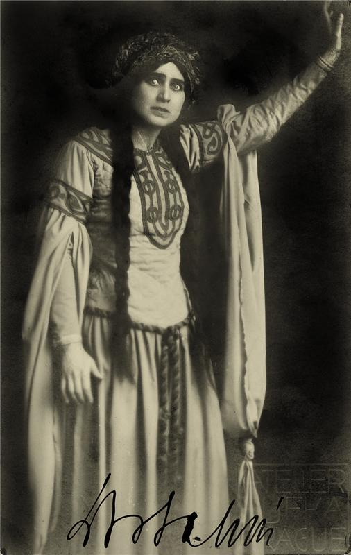 Czech actress Leopolda Dostalová as Lady Macbeth in National Theatre (Prague)